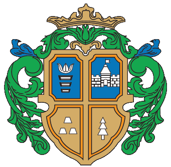 Coat of Arms of Bolekhiv